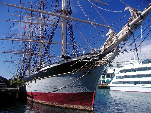 Unlicensed, non-copyrighted hobby photo of the Falls of Clyde, moored at Honolulu Harbor Pier 7 in front of the Hawaii Maritime Center